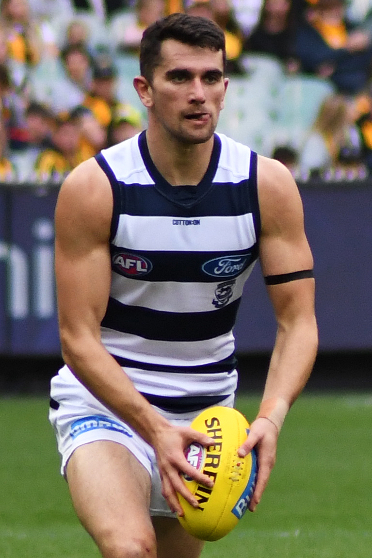 Mark O'Connor of Geelong during the 2019 AFL round 5 match between Hawthorn and Geelong at the Melbourne Cricket Ground on Monday, 22 April 2019 in Melbourne, Victoria.